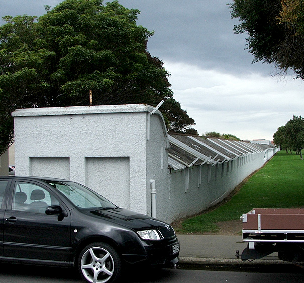 Donaghy Industrys' rope walk, Caversham, New Zealand. Photo by James Dignan (User: Grutness), March 27, 2009. NZHPT Historic Place - Category I, register number 7167